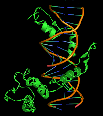 Pymol rendering I made this image myself from the coordinates in the PDB (2Gli) using Pymol. Summary Pymol rendering